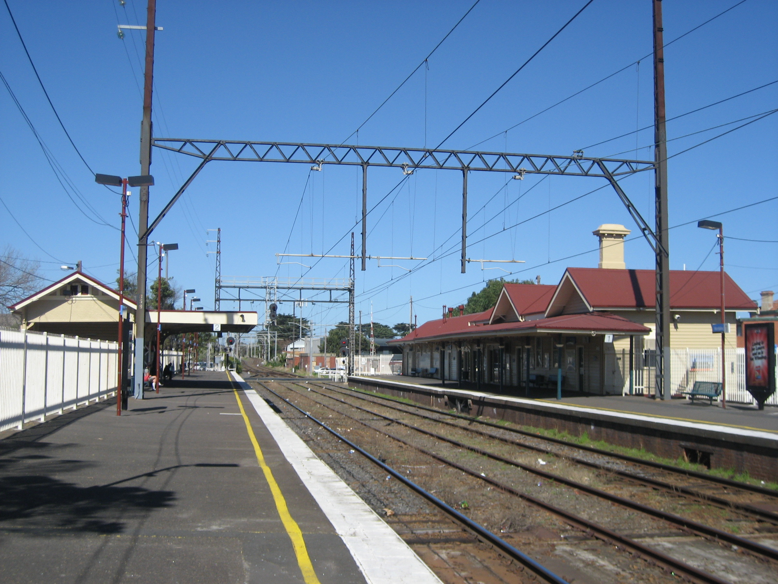 View of Mordialloc station.